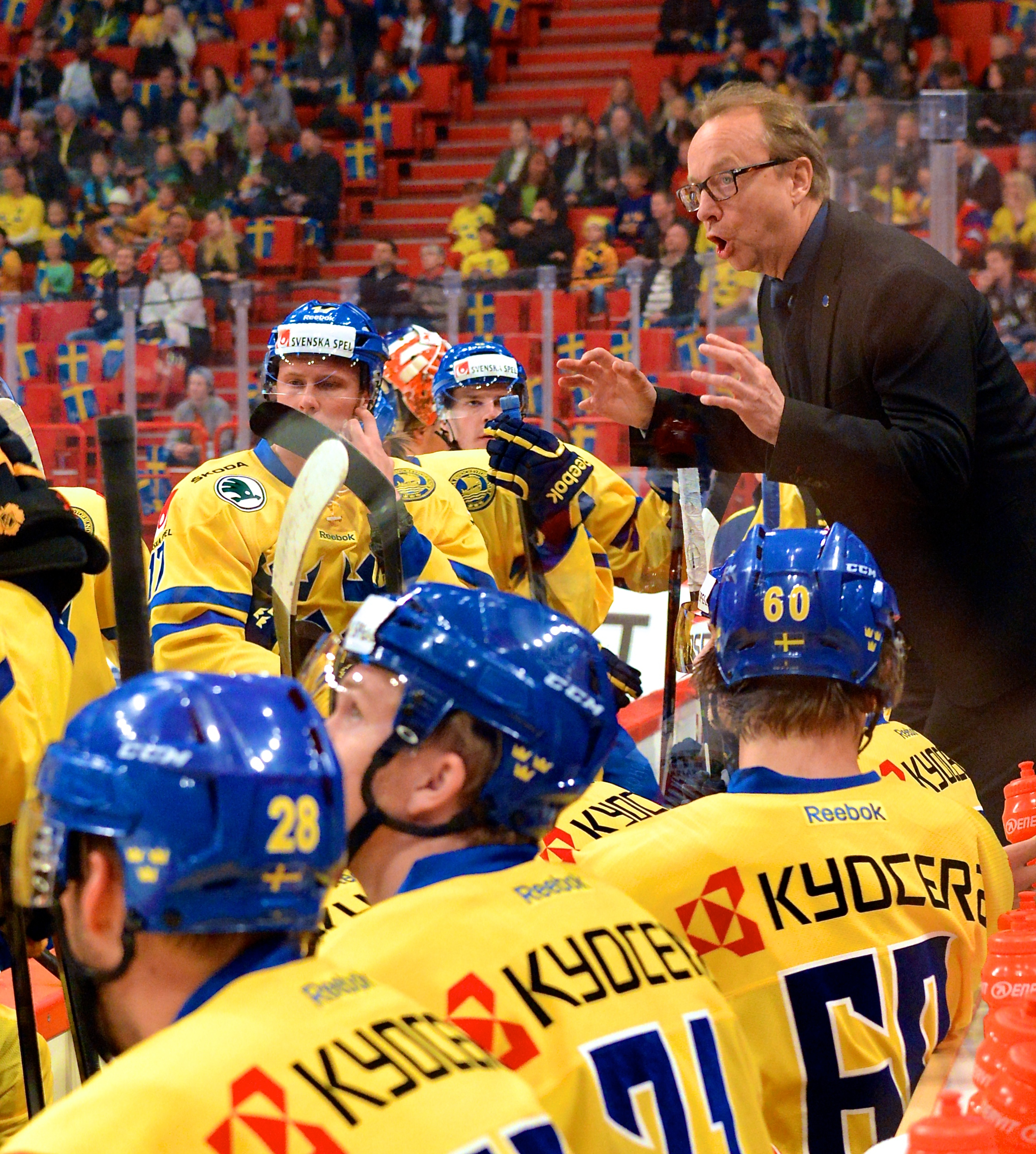 Pär Mårts during Oddset Hockey Games against Russia (2-0) at the Ericsson Globe in Stockholm on May 4th, 2014.